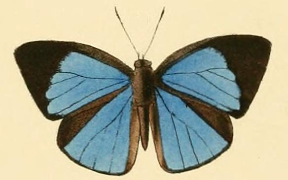 Plate: Supplement Ib Epitola cercene. Figs. 19, 20 ♂. Accepted as Stempfferia cercene (Hewitson, 1873).